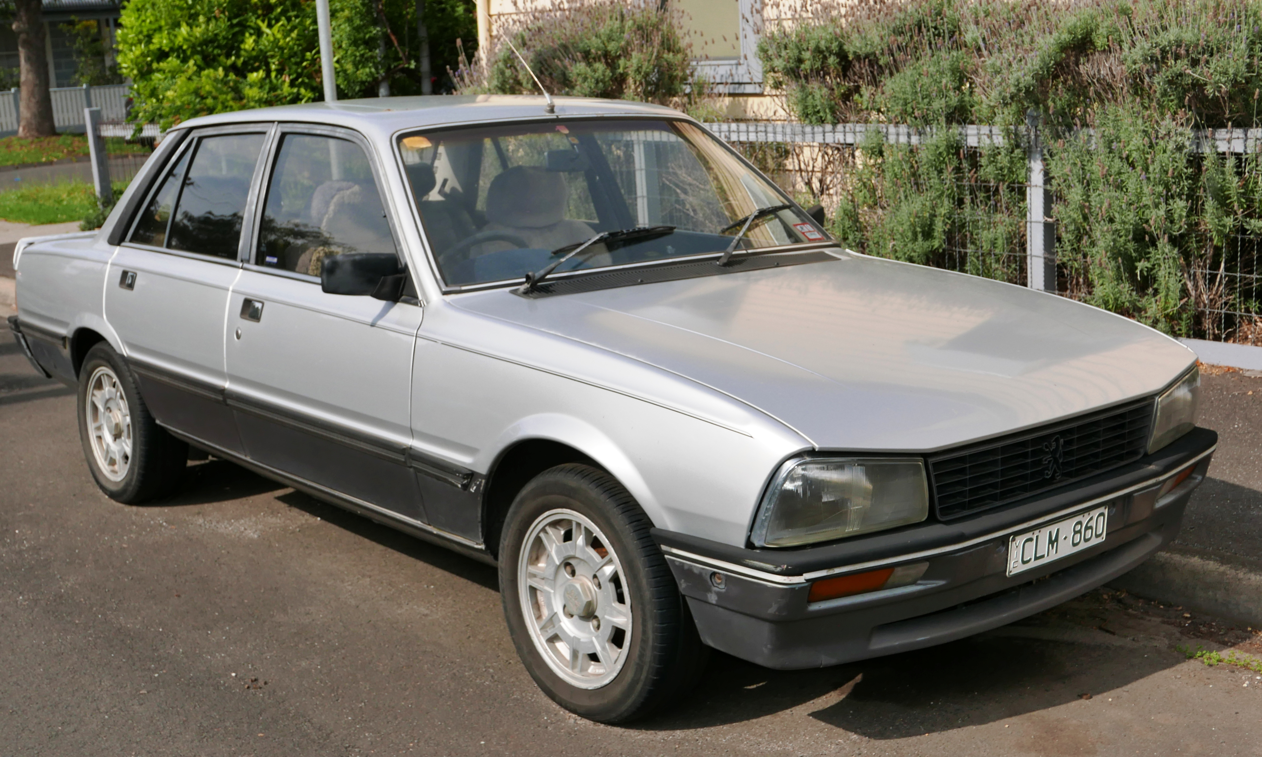 1985 Peugeot 505 GTI Executive sedan This is a derivative picture. I have taken a picture already uploaded by someone else and rotated it a little so that one of the horizontal lines (I chose the garden fence) is horizontal. I find this helps focus attention on the intended subject - the car. I have not attempted to photo-shop out the damage to the strip behind the front wheel arch nor the damage to the rubber in front of the front wheel arch. Maybe a wiki-comrade with better photo-shop skills than I might be tempted. But then, of course, you get into issues of authenticity. I hope the original uploader of the picture will (1) see the point and (2) forgive my presumption.